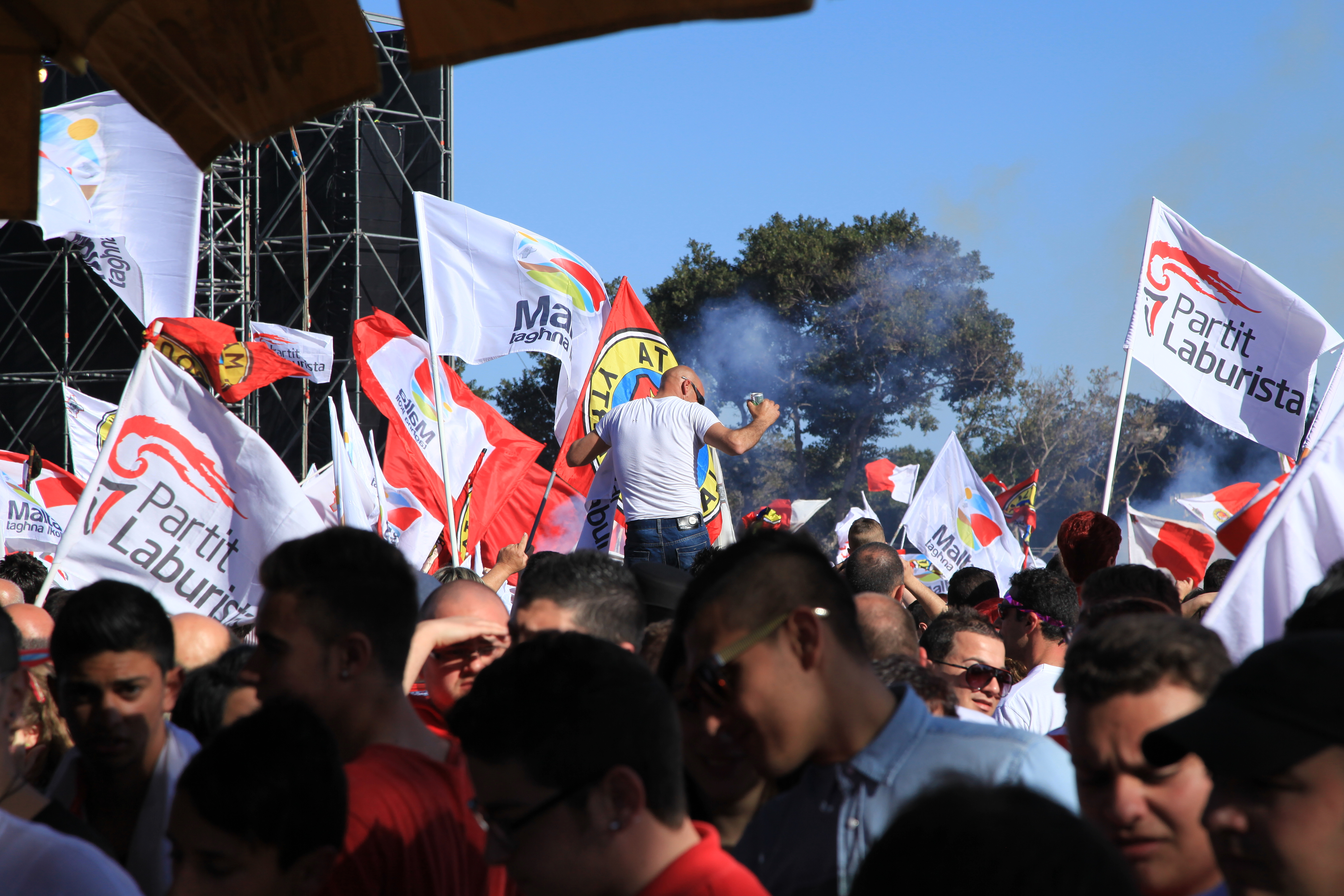 Election celebrations at Pjazza San Publju in Floriana, Malta